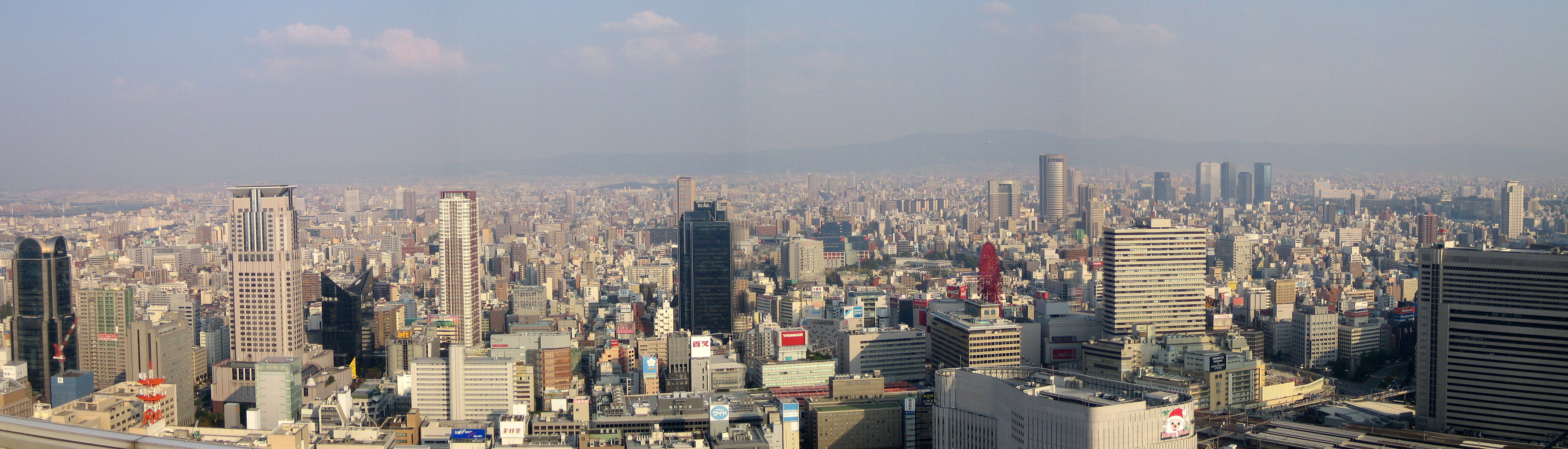 Panorama of Ōsaka from the Umeda Sky Building (Personal picture taken on November 4, 2006)